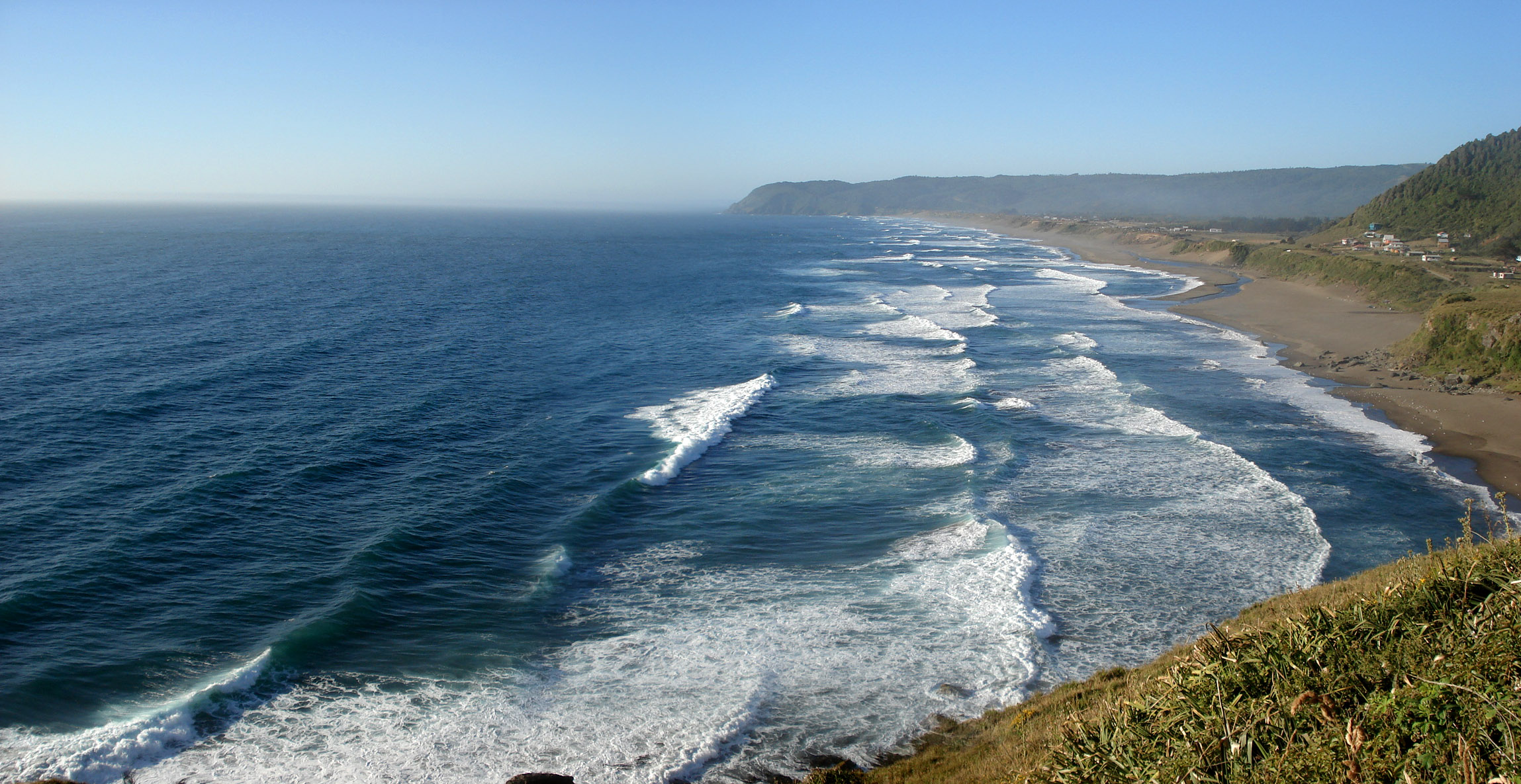 Playa de Curiñanco vista desde el sur.